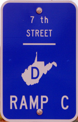 Official Corridor D tenth mile-marker in West Virginia. It is displayed only on these special mile-markers and not on full shields.